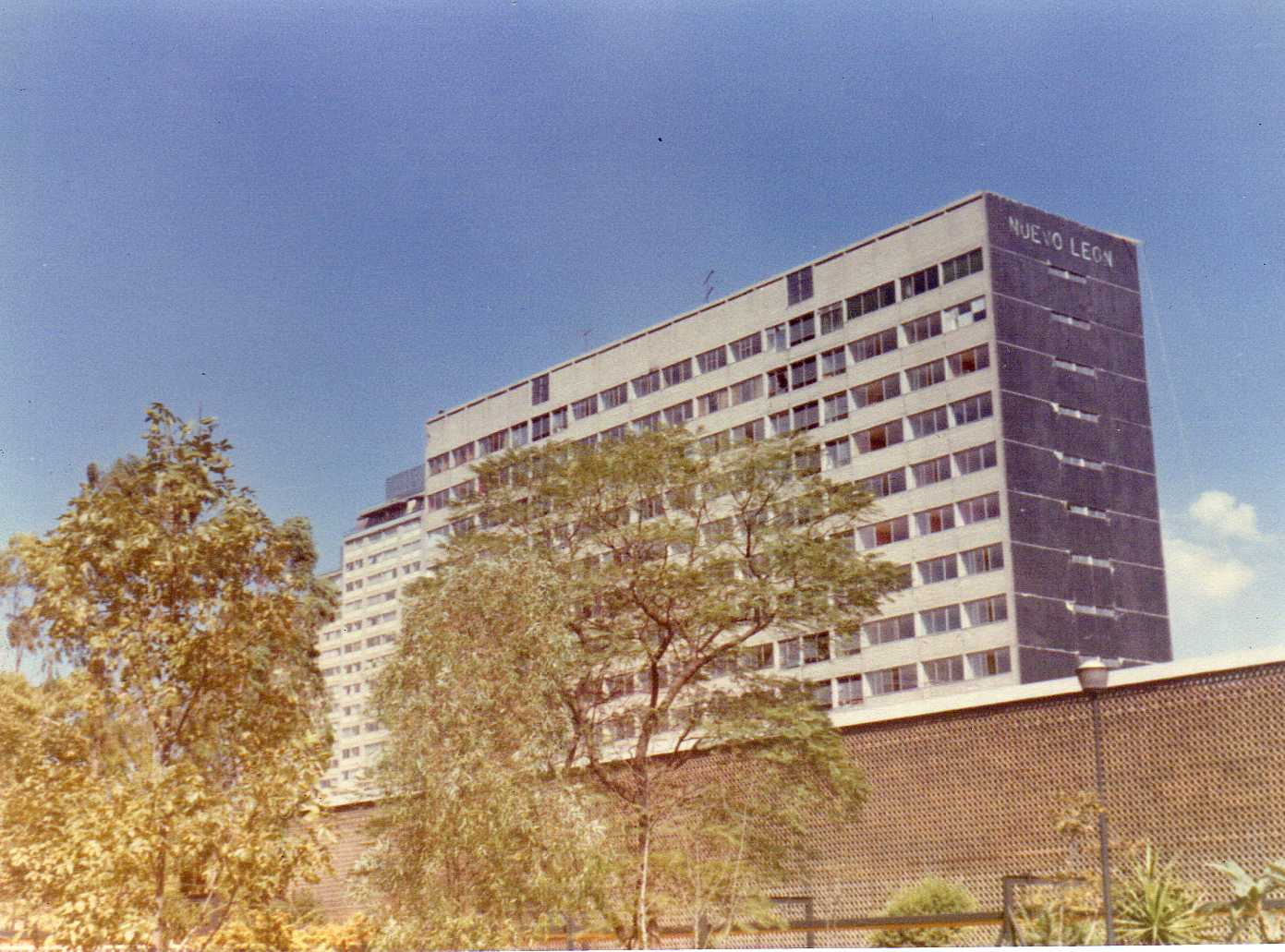 Images of Mexico City Earthquake, September 19, 1985.